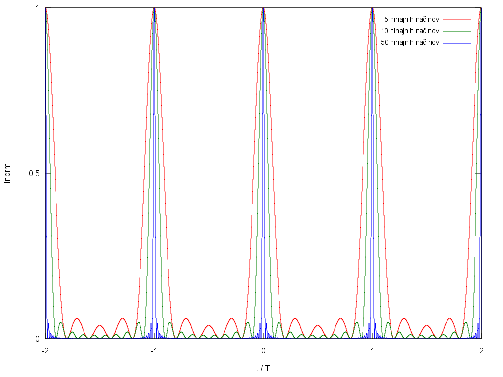 Intensity of a modelocked pulse train at different numbers of coherent modes